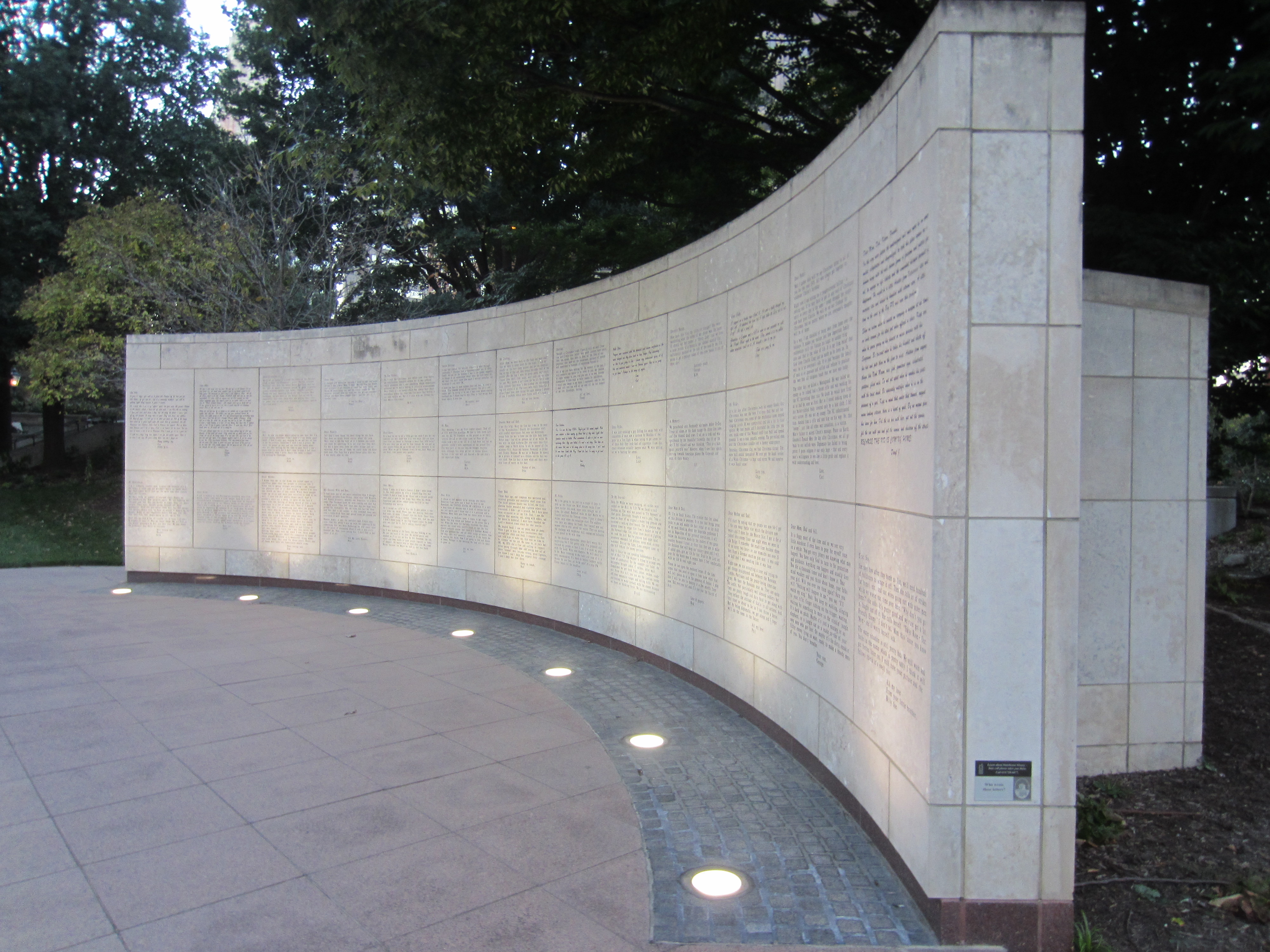 Columbus, Ohio (2018)